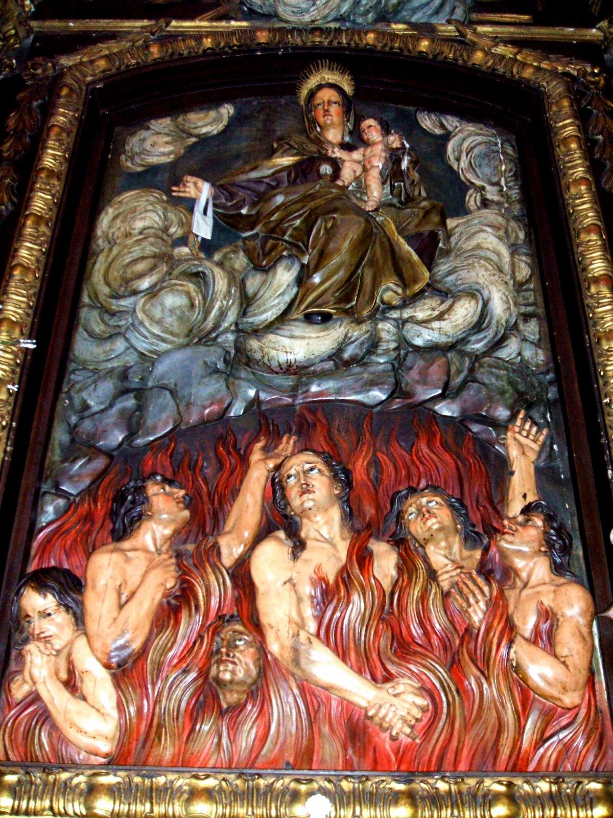 Retablo de las Ánimas del Purgatorio, en la girola de la Basílica de Santa María de la Asunción, Lequeitio (Vizcaya, Euskadi, España)